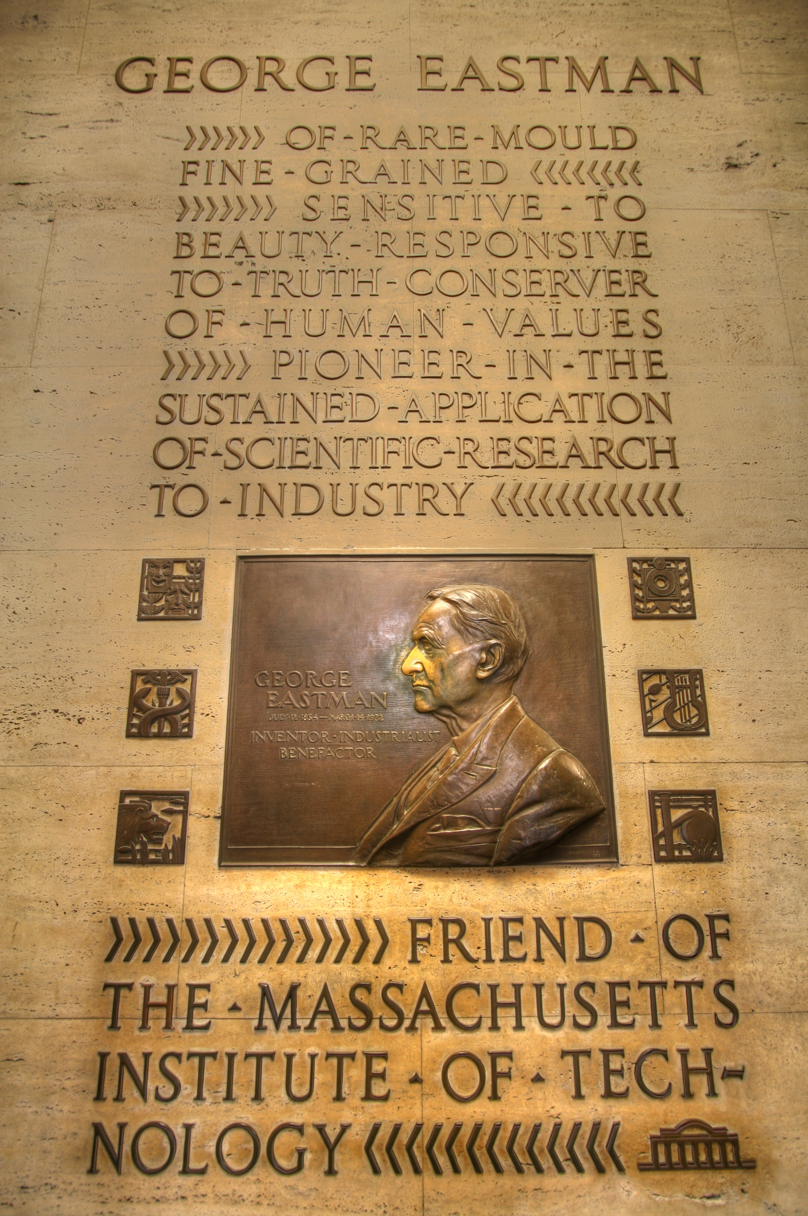 Plaque in MIT Building 6 commemorating George Eastman. The portrait's nose is a polished golden tone due to a student tradition to rub it for good luck prior to taking final exams. Building 6 was built in 1930-32 and was designed by Coolidge and Carlson. (Source: MIT: The Campus Guide)